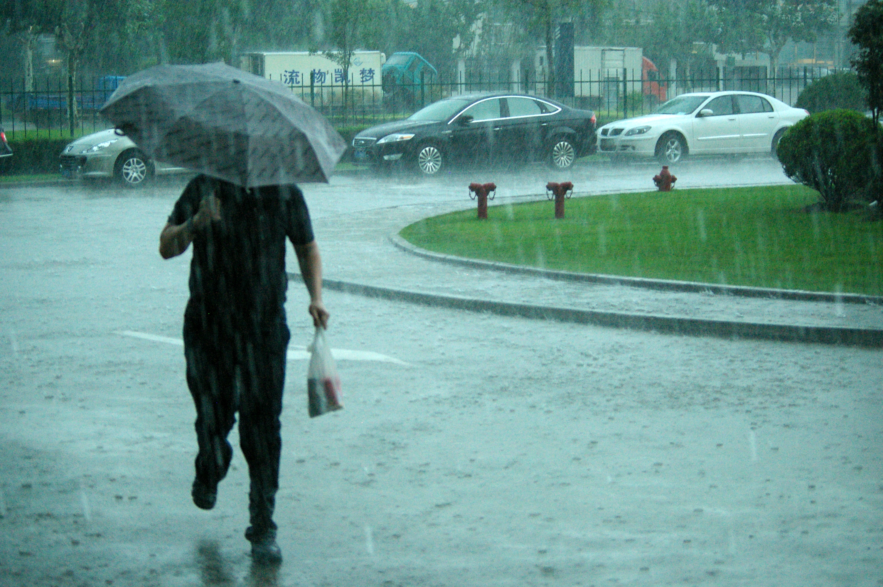 Monsoon rain in Shanghai